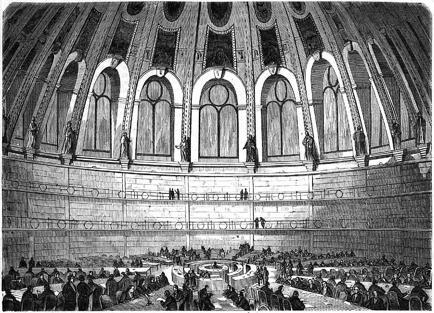 caption: "Die neue Central-Lesehalle im britischen Museum."